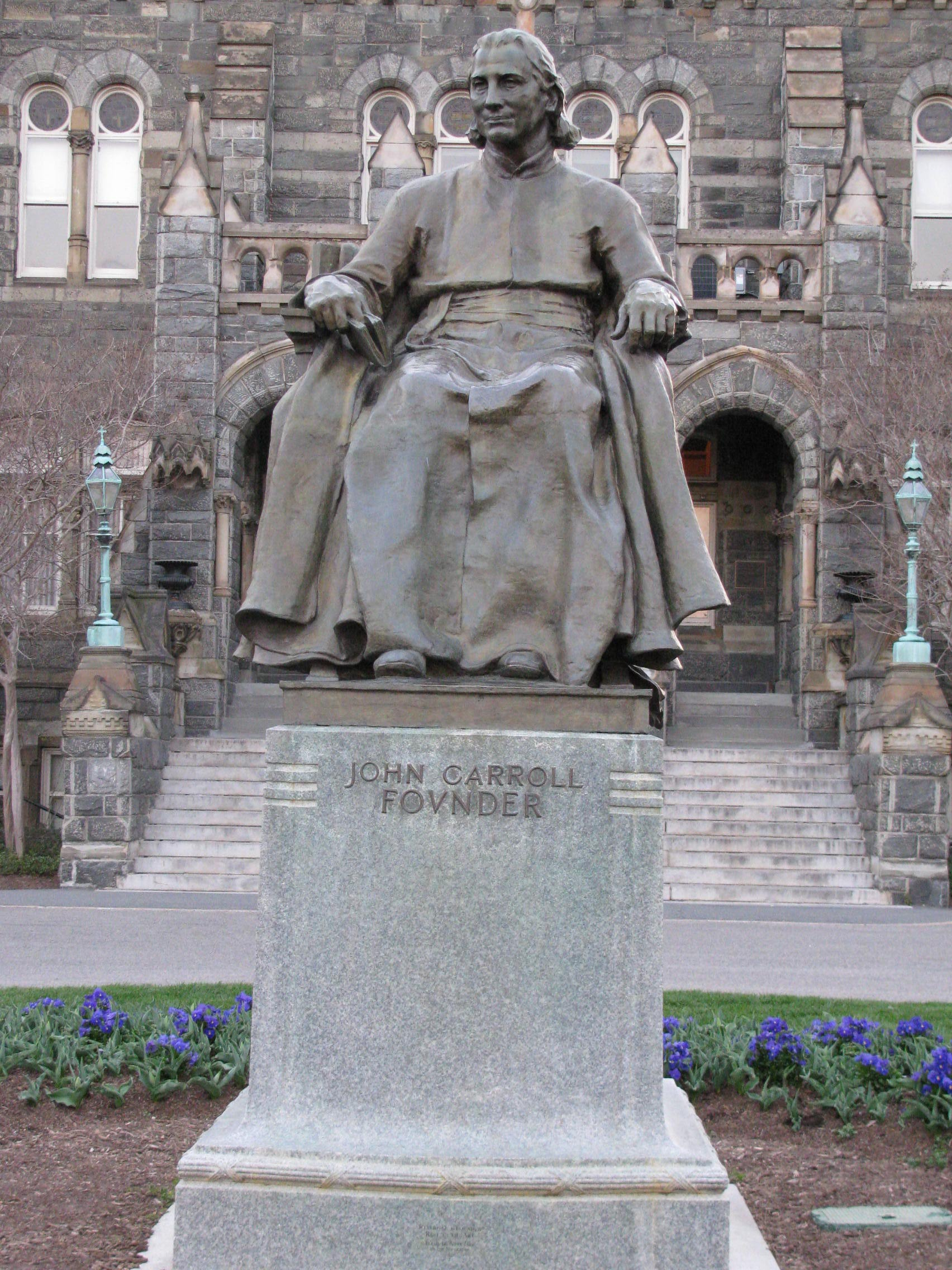 Inscription: (Sculpture, proper right, near base:) Jerome Conner(sic) - 1912 (Base, front:) JOHN CARROLL/FOVNDER (Base, rear:) PRIEST/PATRIOT PRELATE signed